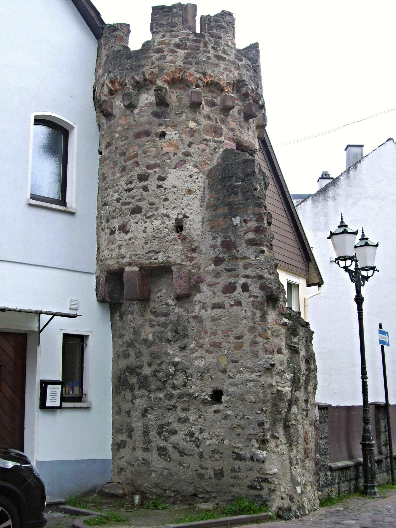 The so-called "Franzosenturm" ("Frenchmen tower") in Leimen, Baden-Württemberg, Germany. It is the last rest of the medieval city walls from the 14th century. On the first three corbels from the left one can find in the following order: a grotesque, an escutcheon and a grotesque again.